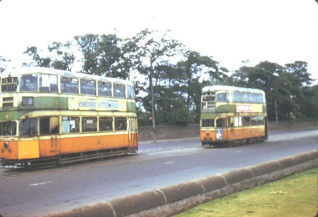 Glasgow trams at Auchenshuggle terminus. Taken in June 1962, three months before the final bow of Glasgow's trams. It was the eastern end of route 9 to Dalmuir West.